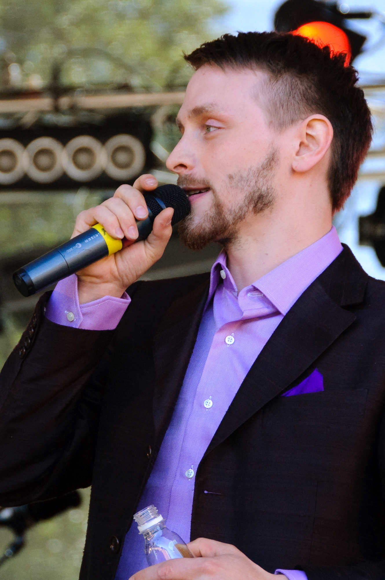 Vocalist Reino Nordin of Reino & the Rhinos performing at the Ilosaarirock festival in Joensuu, Finland.